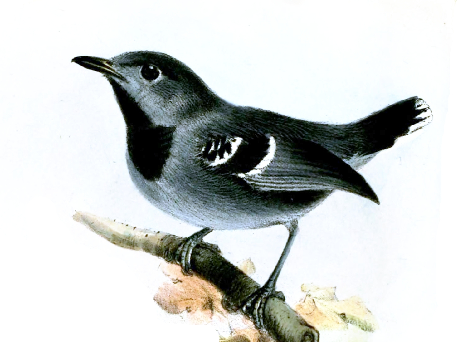 Adult male of Band-tailed Antwren